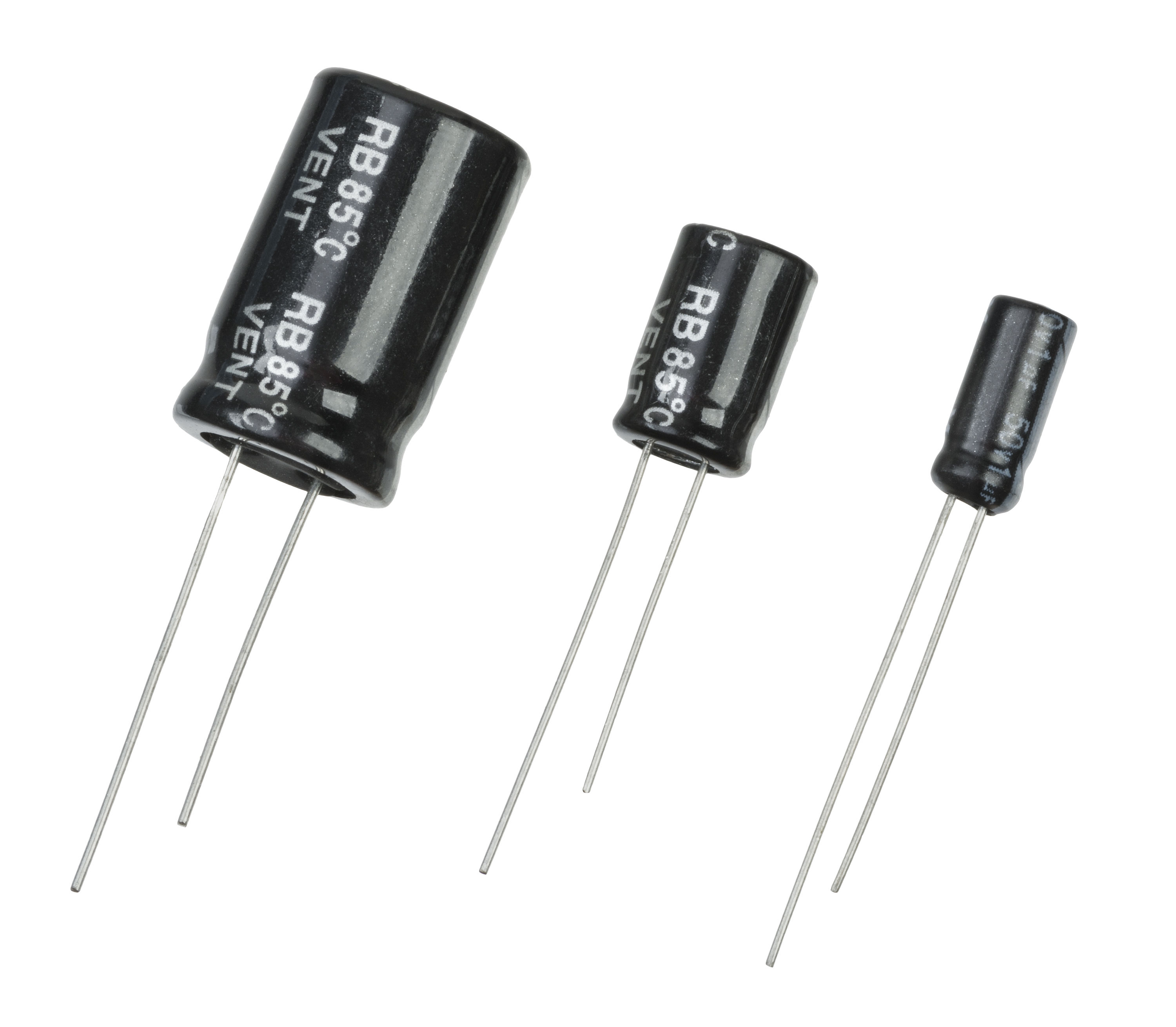 A variety of electrolytic capacitors, which was components used to build electronic devices.